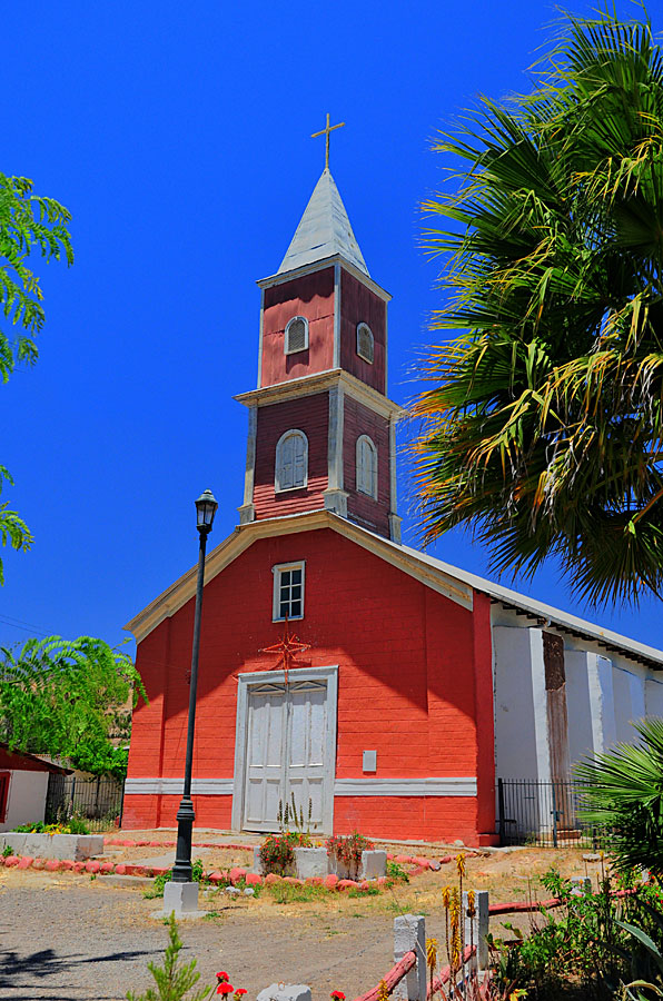 Church of Barraza, Coquimbo Region, Chile